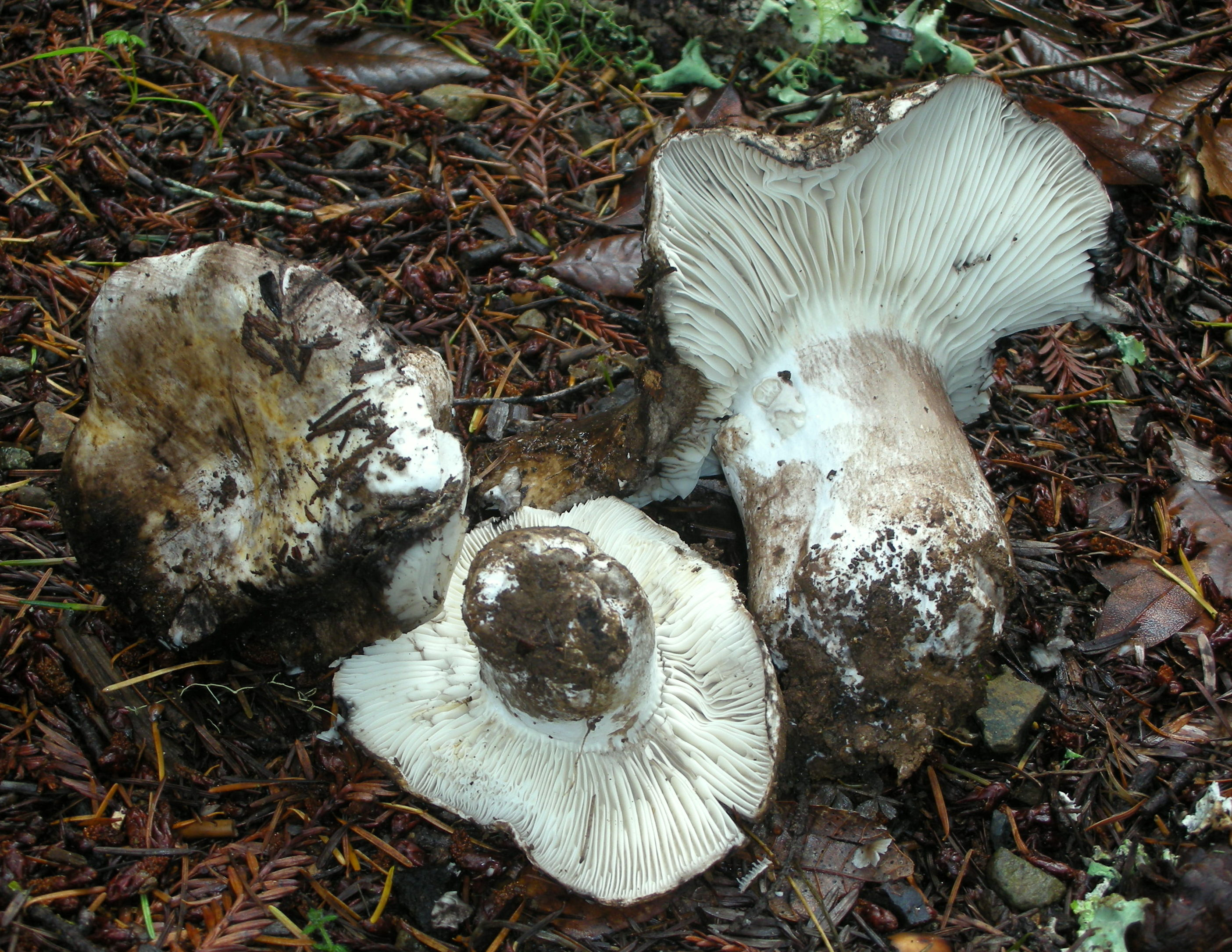 Russula albonigra